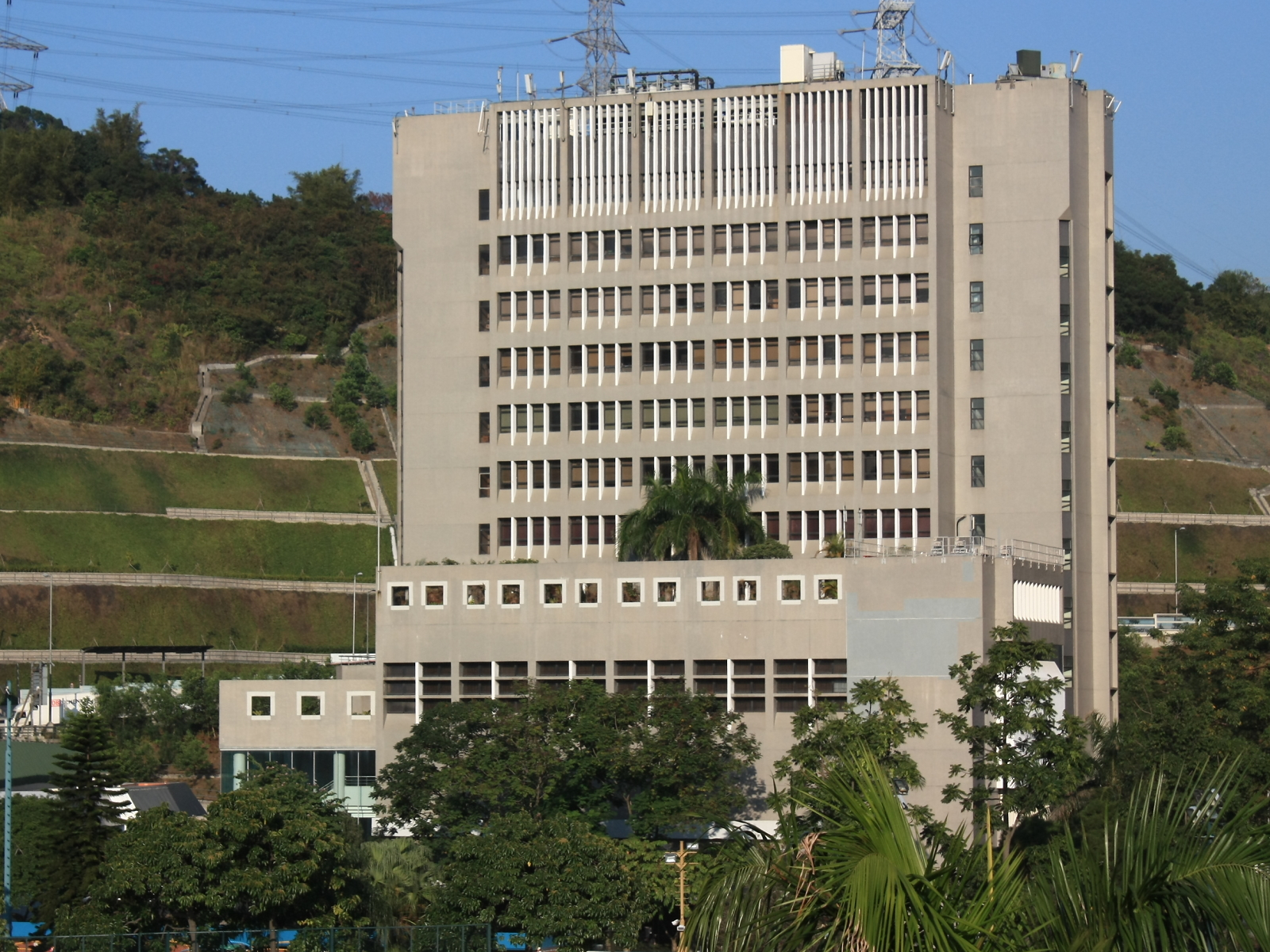 Lai Chi Kok Government Offices